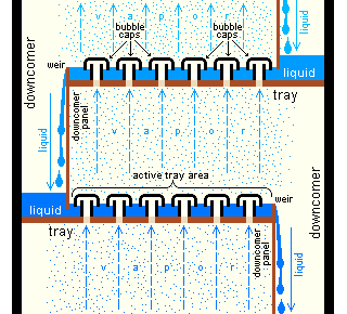 Cross-sectional diagram showing two Trays with Bubble caps in a section of an operating industrial distillation tower. It is effectively a magification of a section of Image:Tray Distillation Tower.PNG showing the second and third trays from the bottom.